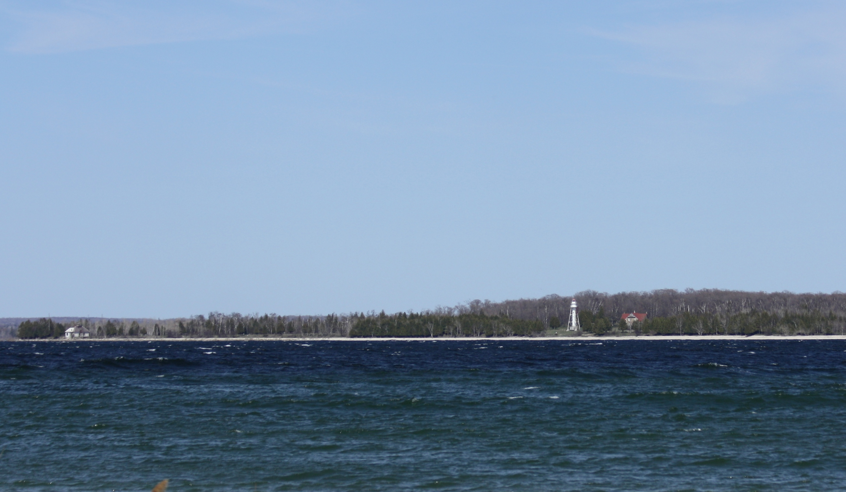 Plum Island (Wisconsin) from Northport, Door County, Wisconsin.